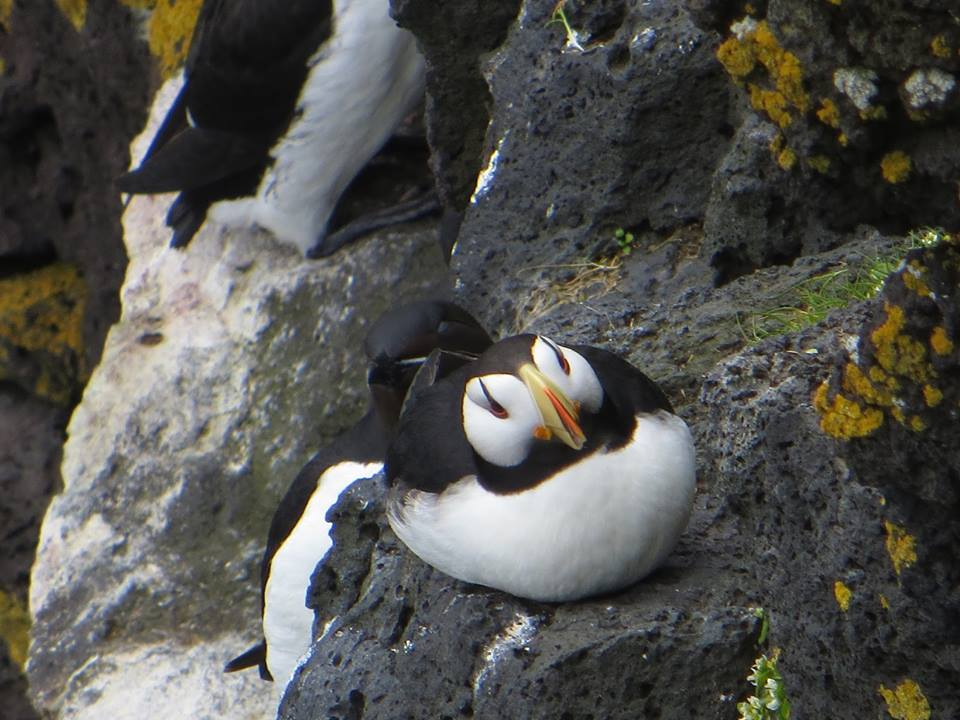 Alaska Maritime National Wildlife Refuge. Credit: Greg Thomson